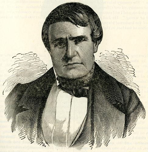 New York Governor (#15) John Young